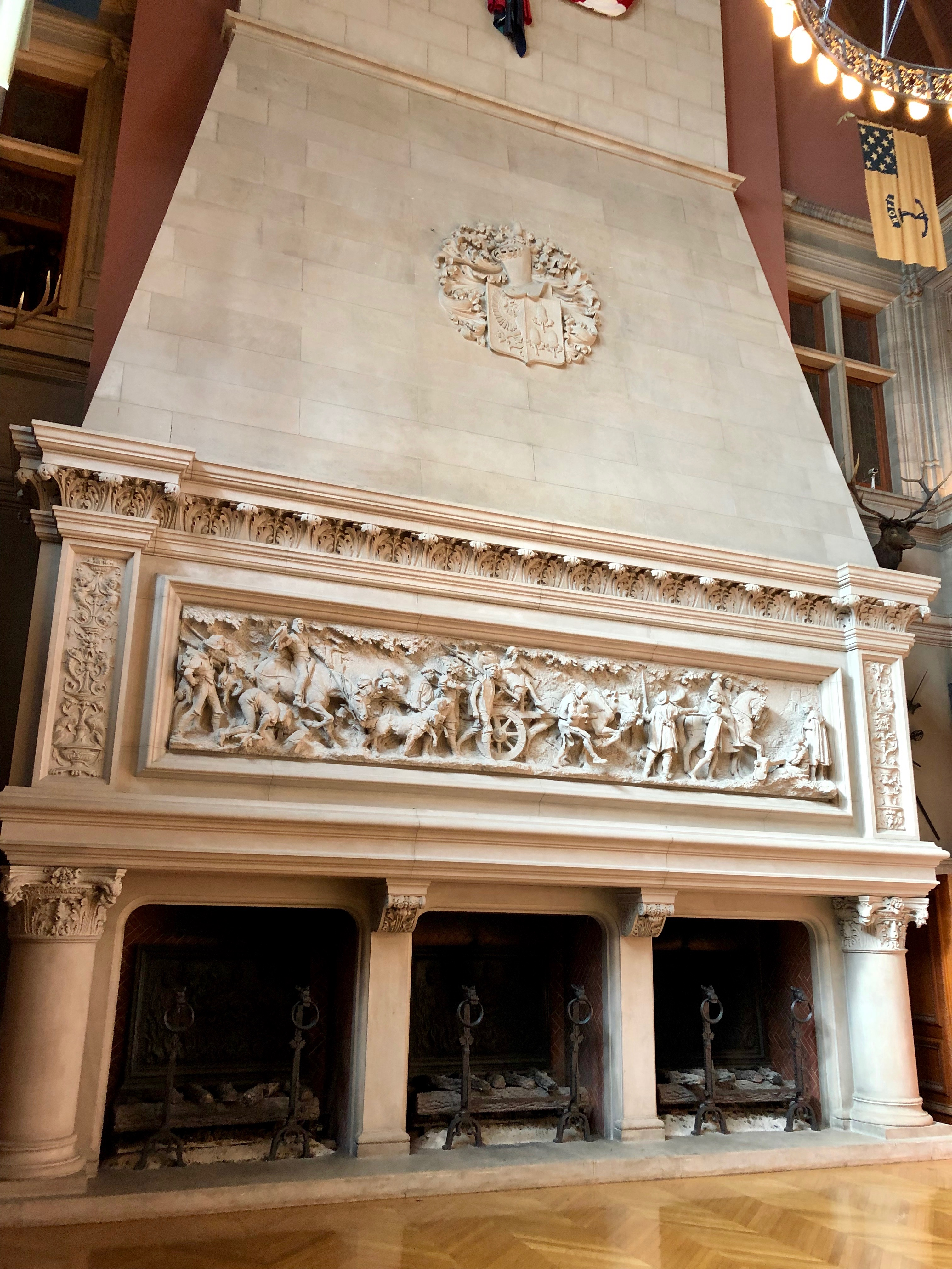 Banquet Hall, Biltmore House, Biltmore Estate, Asheville, NC